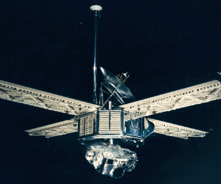 Mariner 6